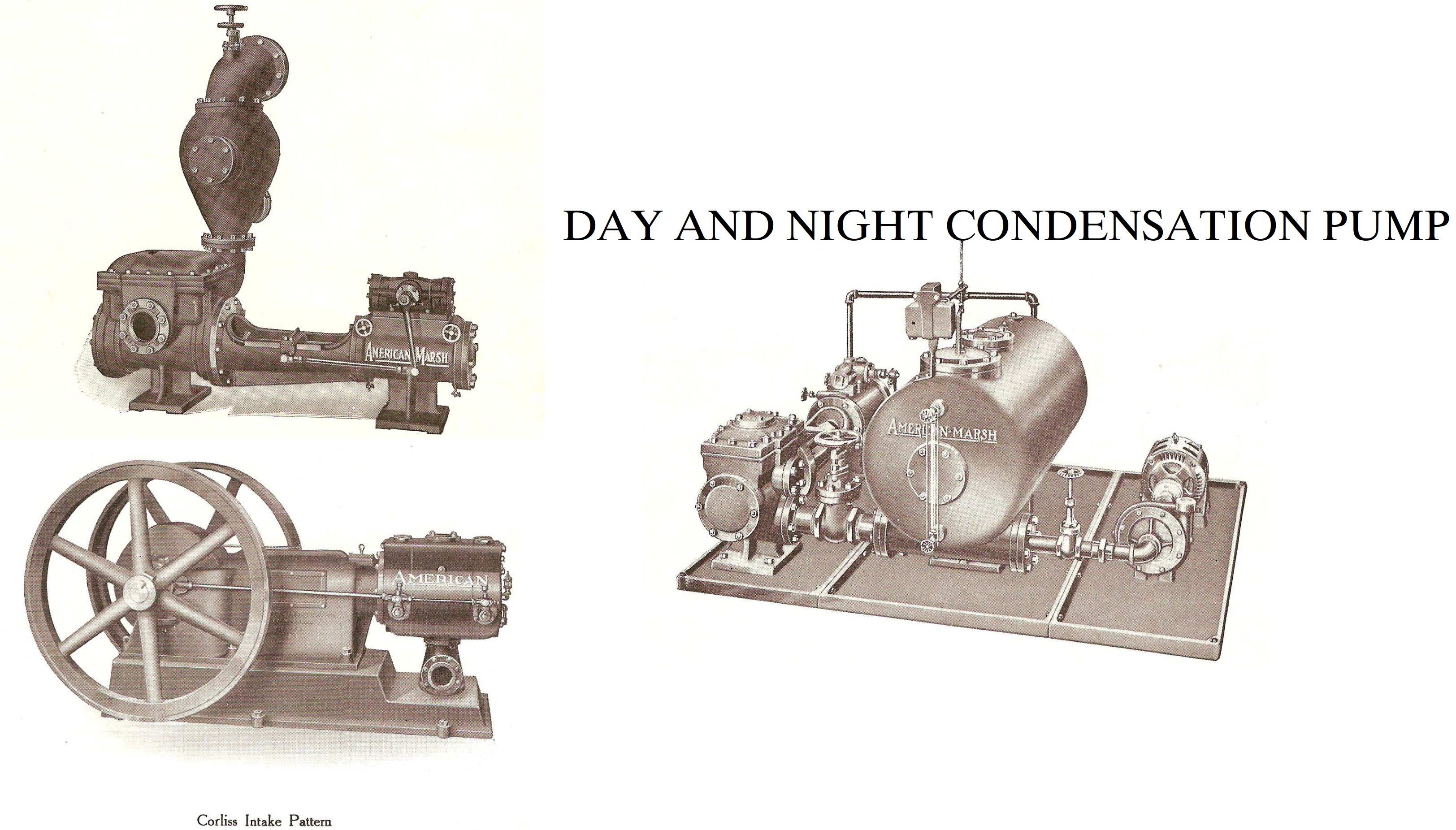 2 steam powered water pumps and an air compressor pre-1915. Made by American steam Pump co / American-Marsh Pumps. bulletin.